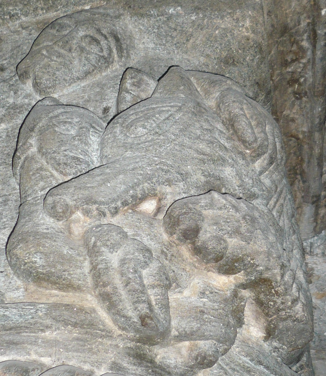 Ormamentation in the Stavanger Cathedral.